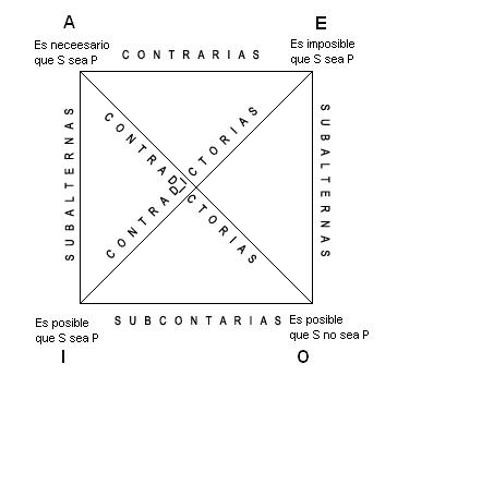 Cuadro de oposición de los juicios aristotélicos modales